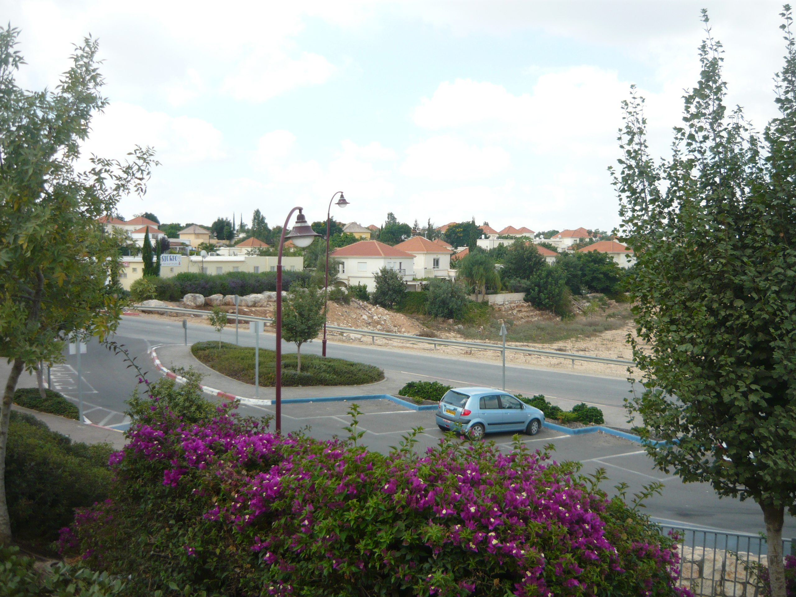 shimshit שמשית, מראה כללי מבית הספר היסודי